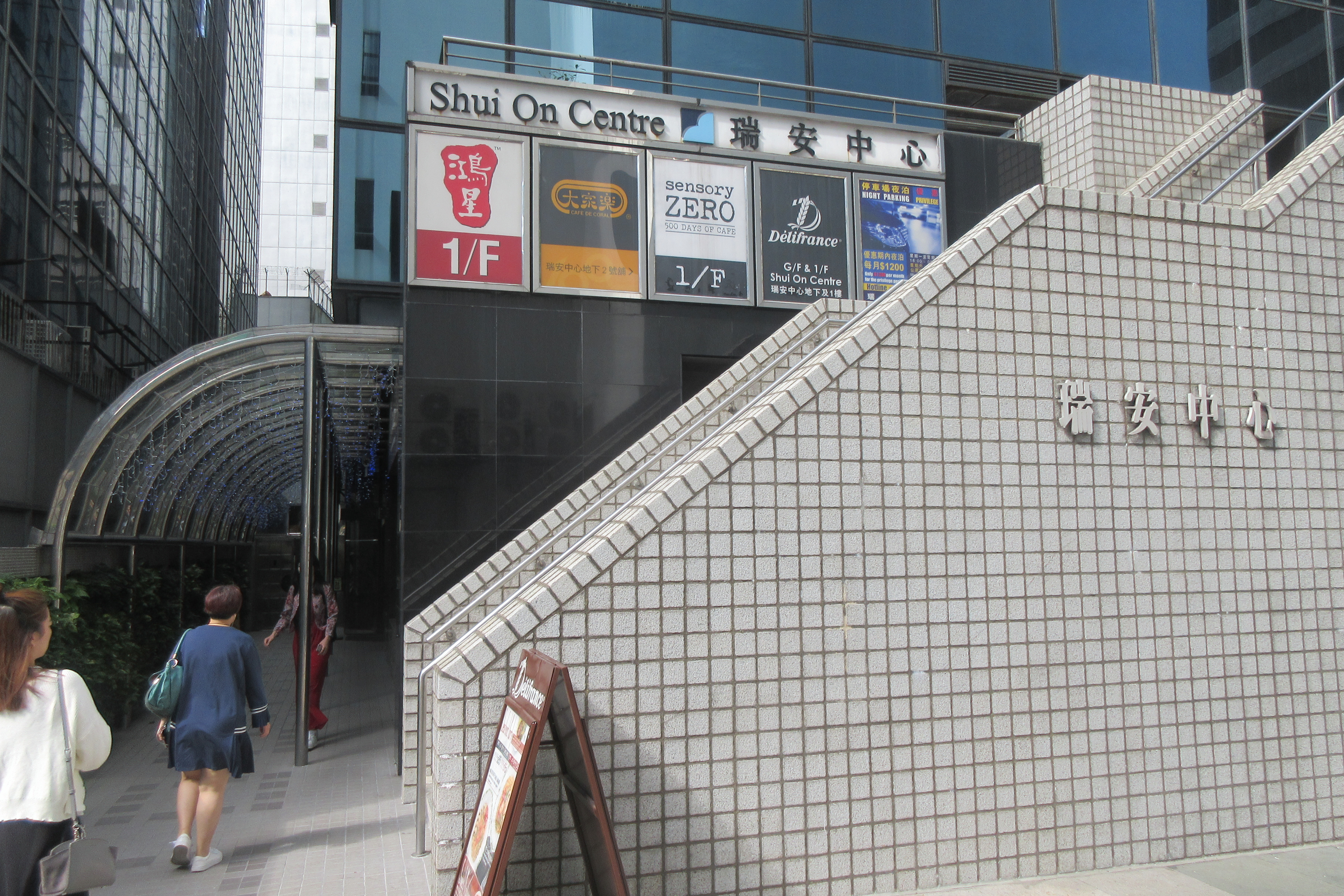 HK 灣仔北 Wan Chai North 港灣道 Harbour Road 瑞安中心 Shui On Centre in December 2018